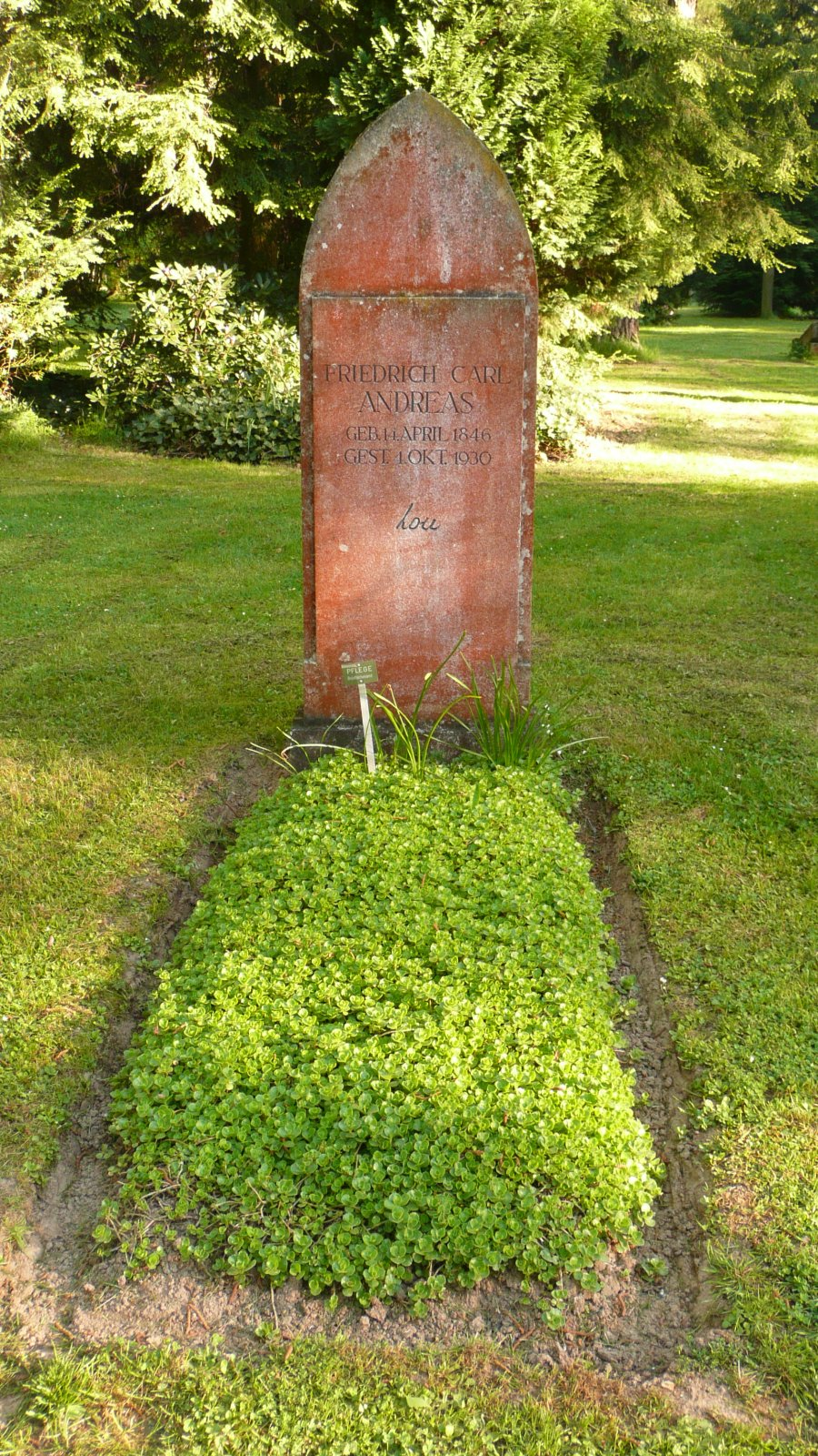 Tomb of Lou Andreas-Salome in Goettingen